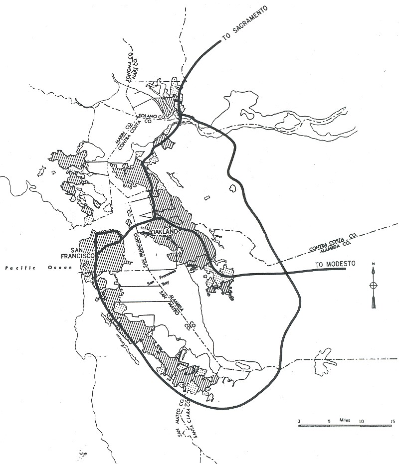 Interstates in today's terms I-80 I-280 (not connected to I-80) I-480 (only partly built and later demolished) I-580 (south of I-80) I-680 (part became I-780)